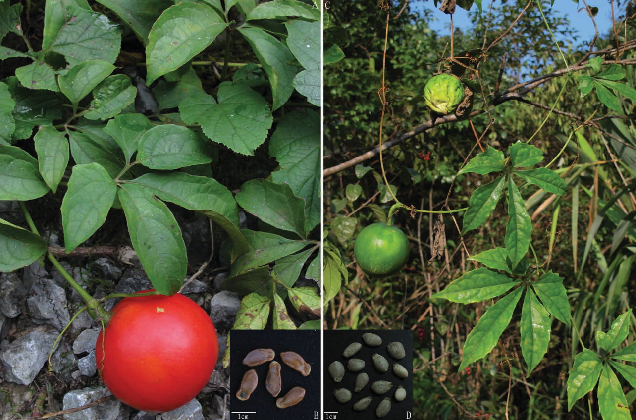 "Figure 2. Trichosanthes napoiensis sp. nov. A. Habit. B. Seeds; Trichosanthes pedata C. Habit. D. Seeds."